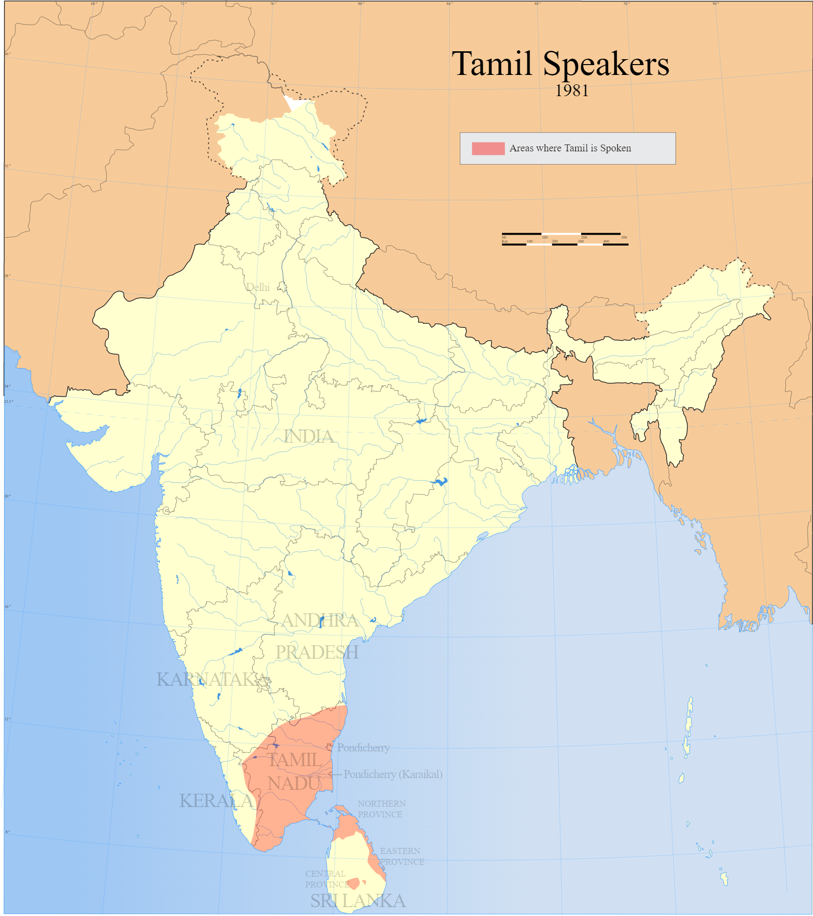 Detail of Image:Tamil speakers map.svg; Areas in India and Sri Lanka where Tamil is spoken (1961).